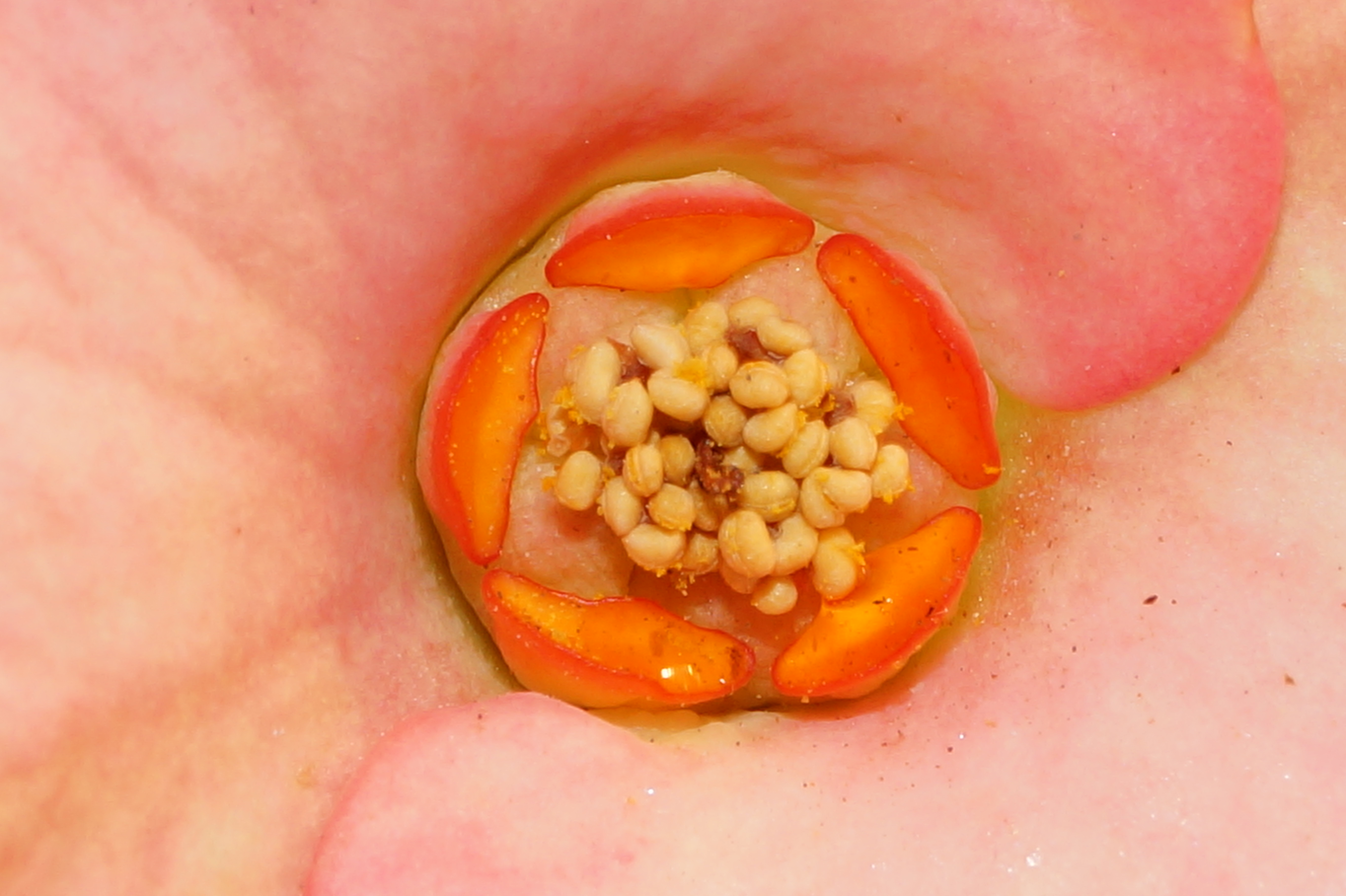 stamen of euphorbia milii